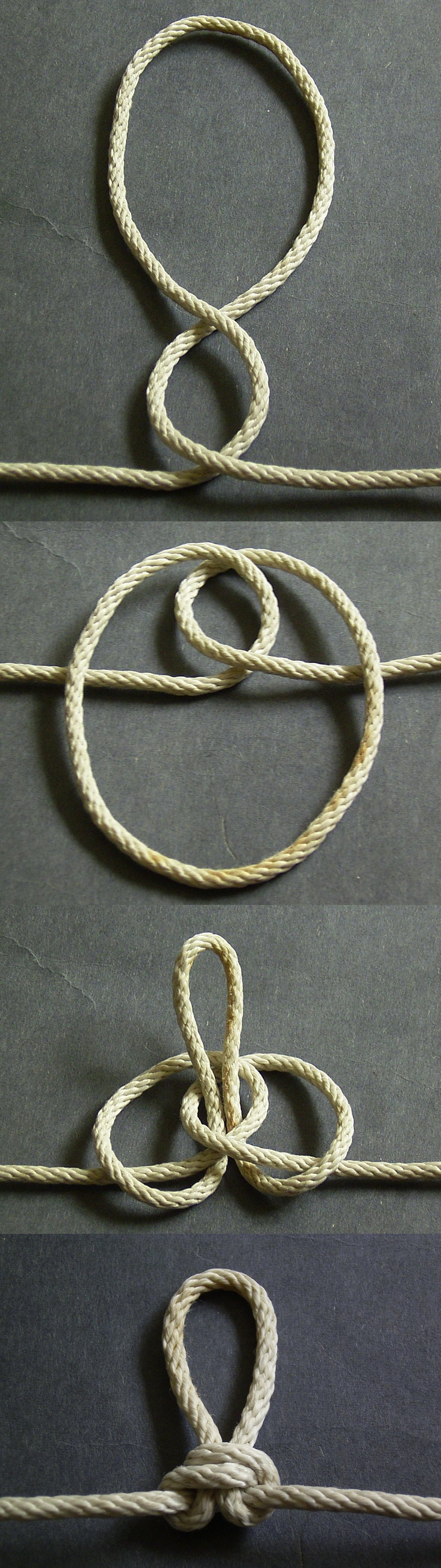 Image sequence of how to tie an Alpine Butterfly Loop Knot using the double twist method.